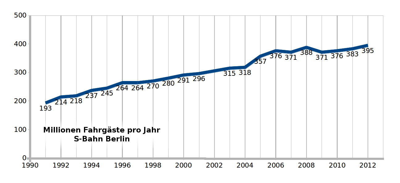 passengers at the S-Bahn Berlin, in millions per year